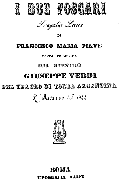 Giuseppe Verdi - I due Foscari - titlepage of the libretto - Rome 1844